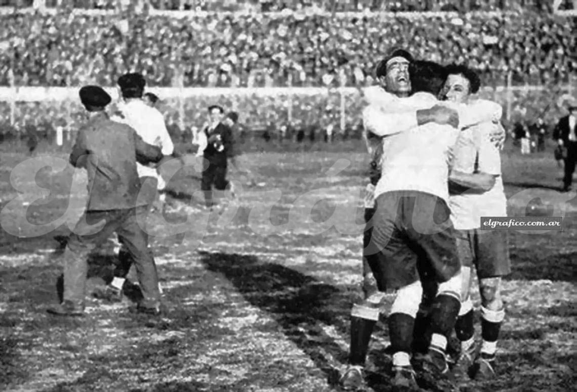 Uruguay players celebrating the win over Argentina.